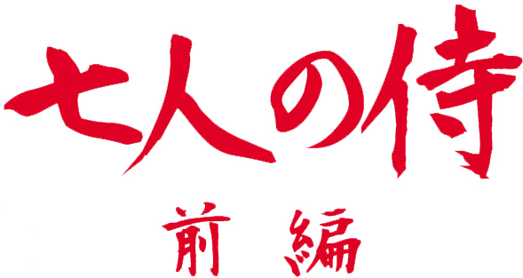 Seven Samurai film logo.